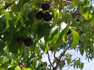 Eugenia candolleana (Rainforest plum, cambuí roxo, murtinha), canopy and ripe fruits (cropped 4:3). Picture taken in the UNICAMP campus (Campinas, SP, Brazil) by J. Stolfi on 2012-02-26, with a Kodak Playsport; reduced to 1/3 size with GIMP.